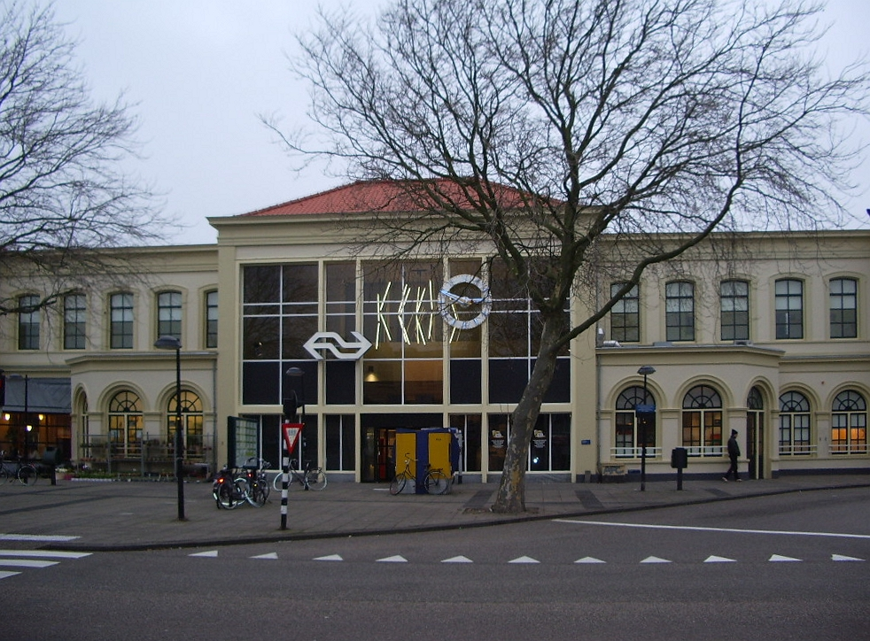 Railwaystation Alkmaar